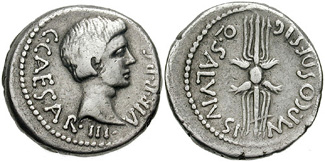 OCTAVIAN. 40 BC. AR Denarius (3.61 gm). Q. Salvius Rufus, moneyer. Military mint traveling with Octavian in Italy. Bare head right / Winged thunderbolt. Crawford 523/1a; CRI 300; Sydenham 1326b; RSC 514. Toned VF, obverse scratches, light porosity.